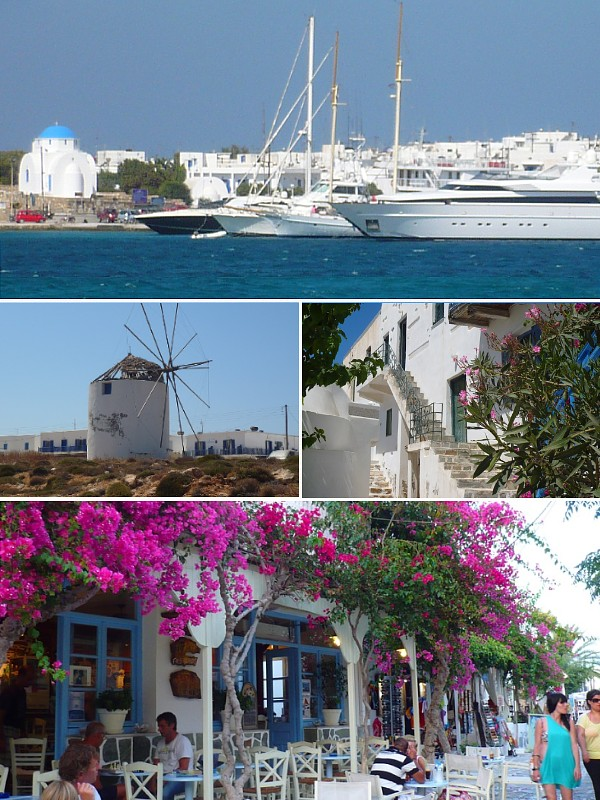 A collage of pictures from Antiparos